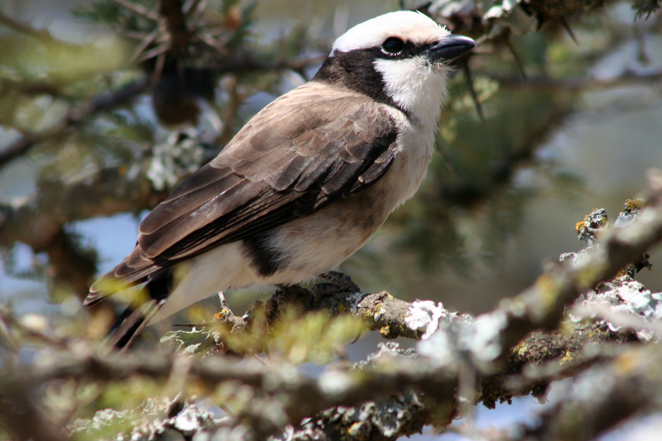 A Northern White-crowned Shrike at Ol Pejeta Conservancy, Laikipia District, Kenya.